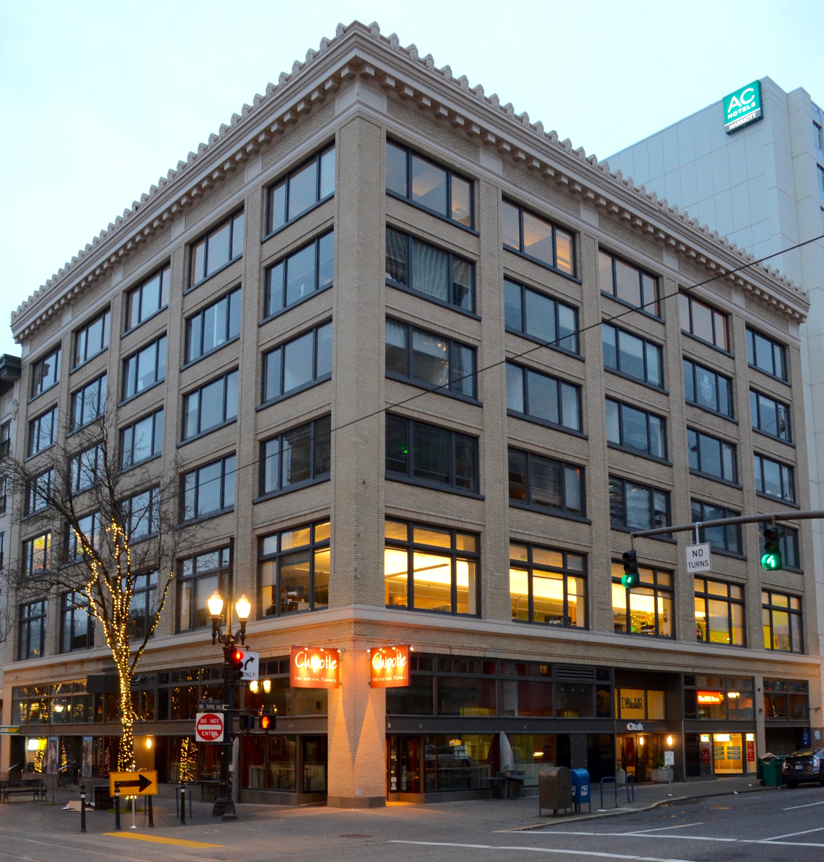 The historic Ira F. Powers Building – more commonly known as the Director's Building (for the Director's Furniture store that was its main occupant for many years) or the Director Building – in downtown Portland, Oregon, viewed from across the intersection of SW 3rd Avenue and Yamhill Street. Built in 1910, the Chicago School architecture-style building is listed on the U.S. National Register of Historic Places.